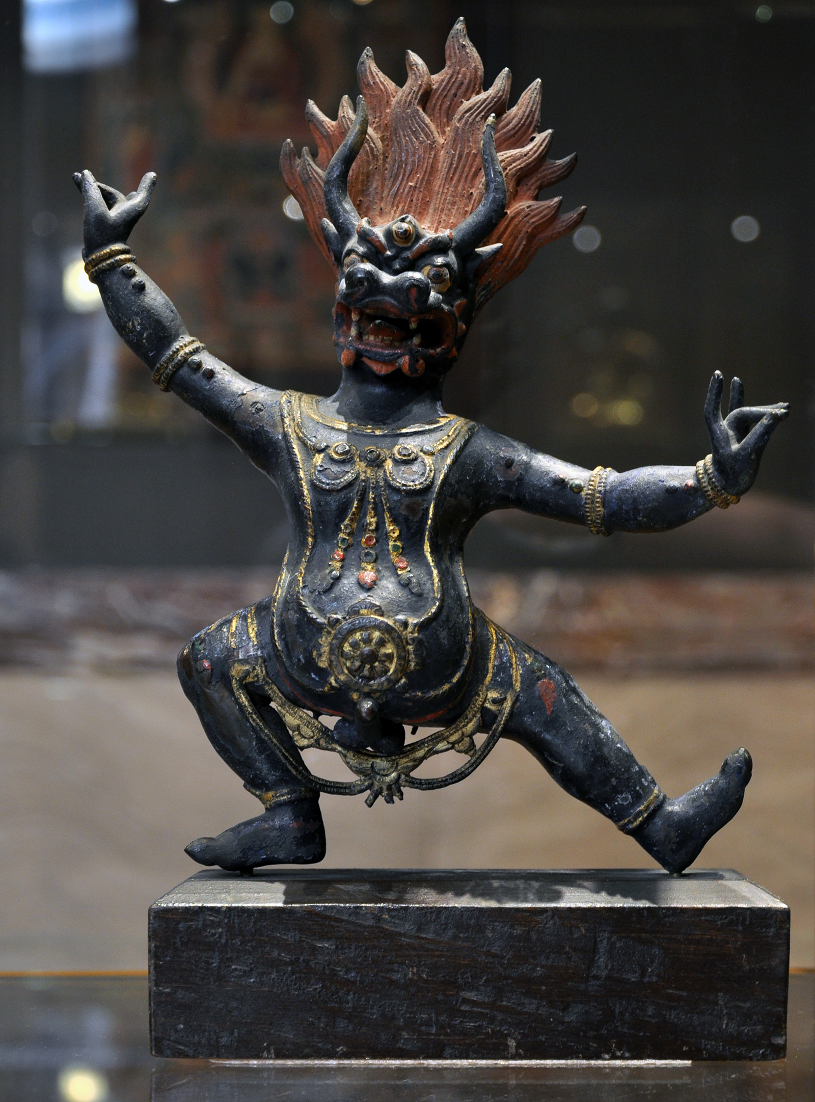 . Yama, bronze statue from Mongolia, beginning of the 19th century.Royal Museums of Art and History (MRAH), Jubilee Park, Brussels.